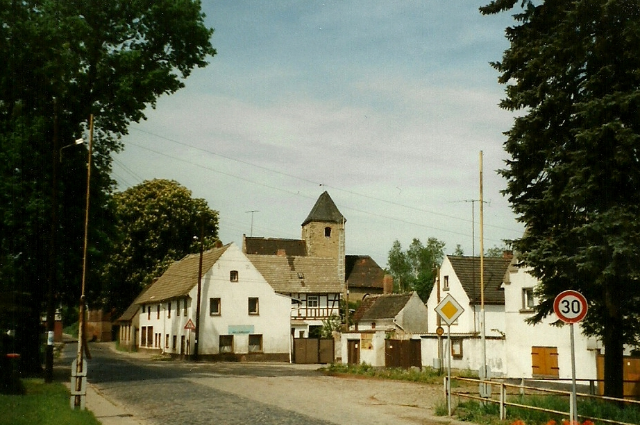 The village of Deumen in the south of Saxony-Anhalt in 1998, belonging to the municipality of Großgrimma, demolished for the development of the Profen opencast mine.